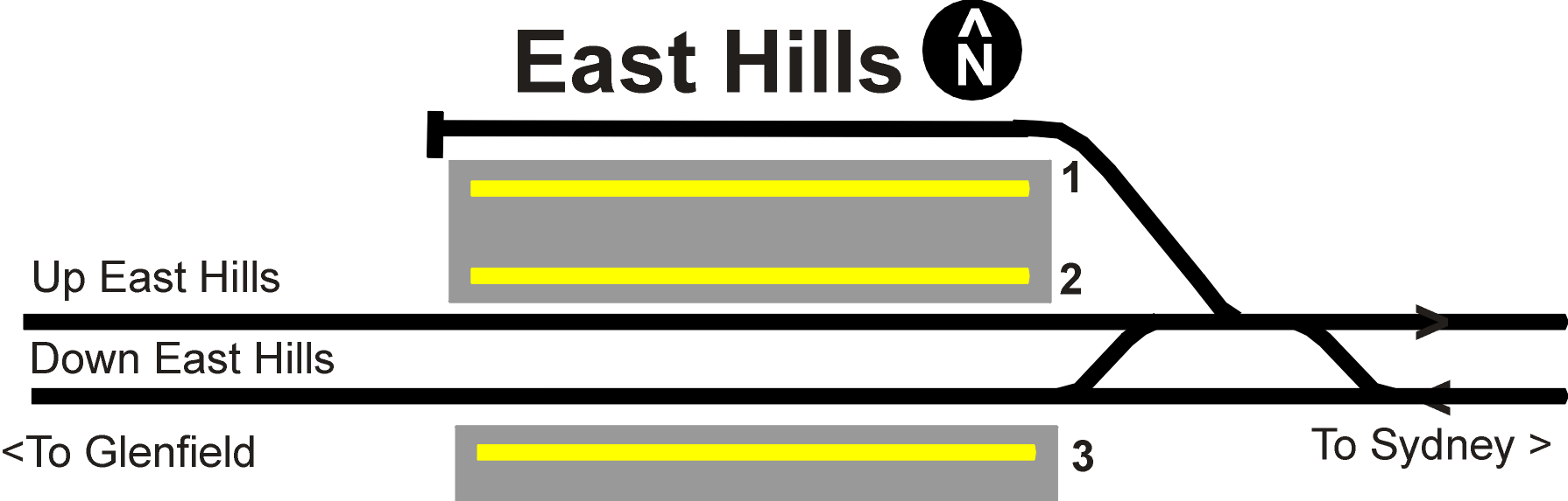 Track layout at East Hills railway station